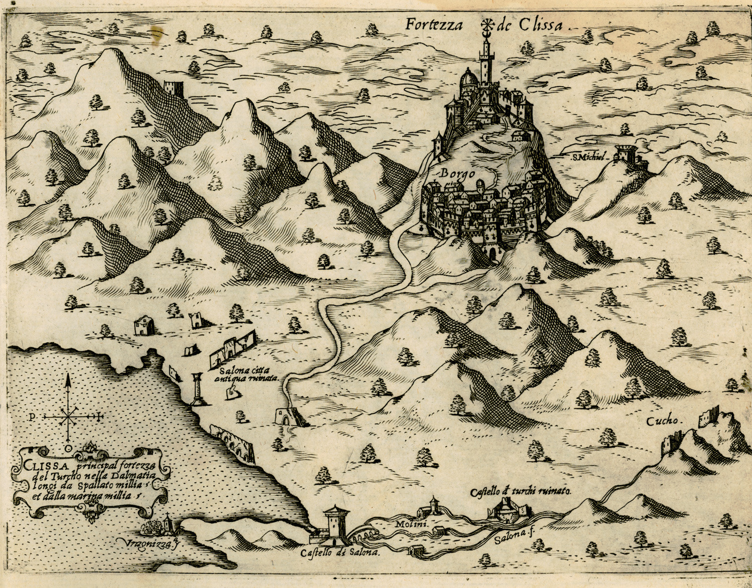 Giovanni Francesco Camocio. Isole famose porti, fortezze, e terre maritime sottoposte alla Ser.ma Sig.ria di Venetia, ad altri Principi Christiani, et al Sig.or Turco, Venice, alla libraria del segno di S.Marco (1574)